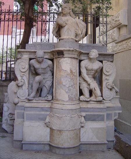 Church